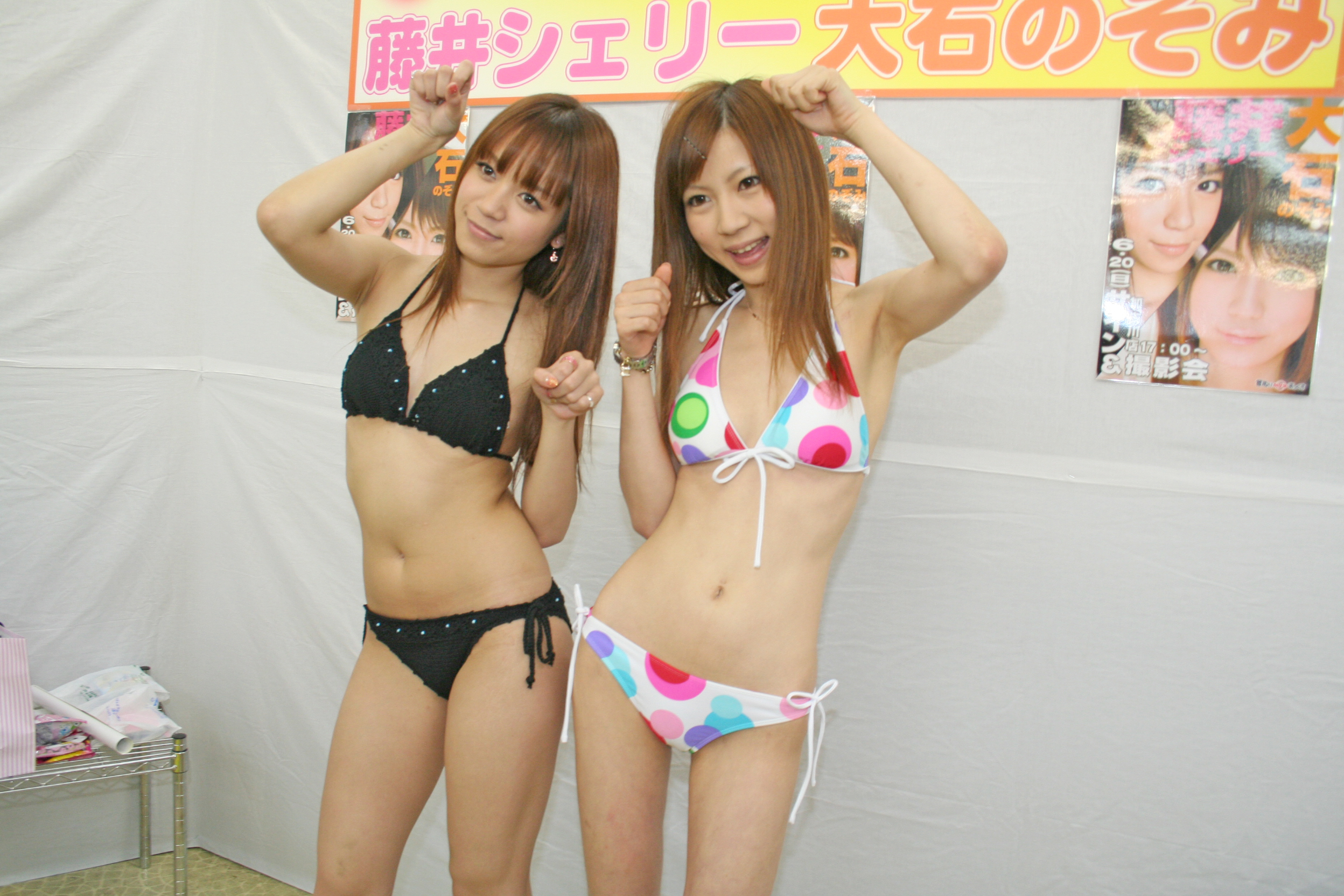 AV actresses, Shelly Fujii (left) and Nozomi Oishi (right), at an autograph-signing event in Kobe, Hyogo, Japan.